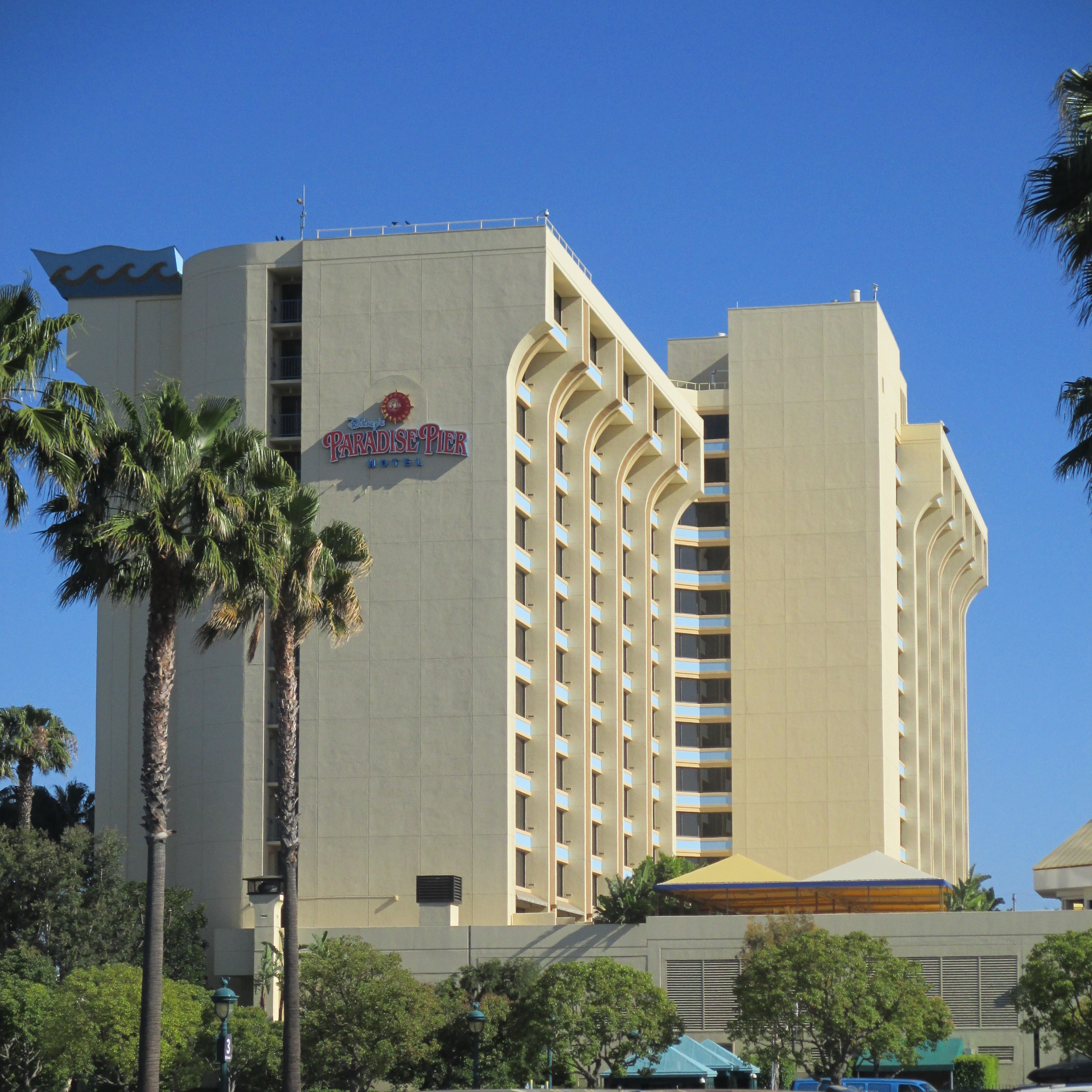 Paradise Pier Hotel at the Disneyland Resort in Anaheim, CA.